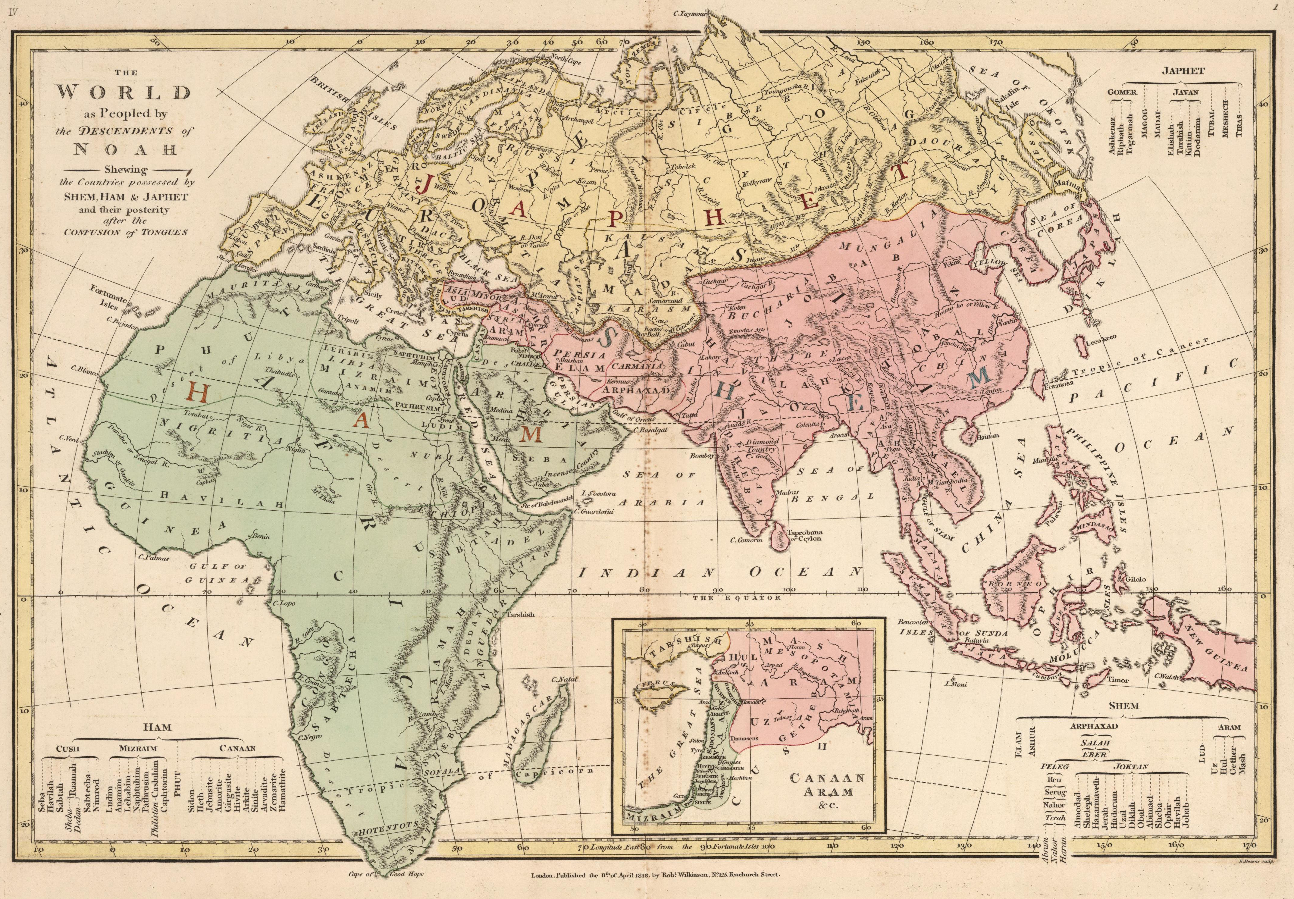 Wilkinson's Atlas Classica Being A Collection of Maps of the Countries Mentioned By the Ancient Authors, Both Sacred And Profane. With their various Subdivisions at different Periods. T. Bourne Sculp. London, Published by Robt. Wilkinson, No. 125, Fenchurch St. Published 4th Jany. 1822. (on table of contents page) ... London: Printed For Robert Wilkinson, No. 125, Fenchurch Street ... 1823.